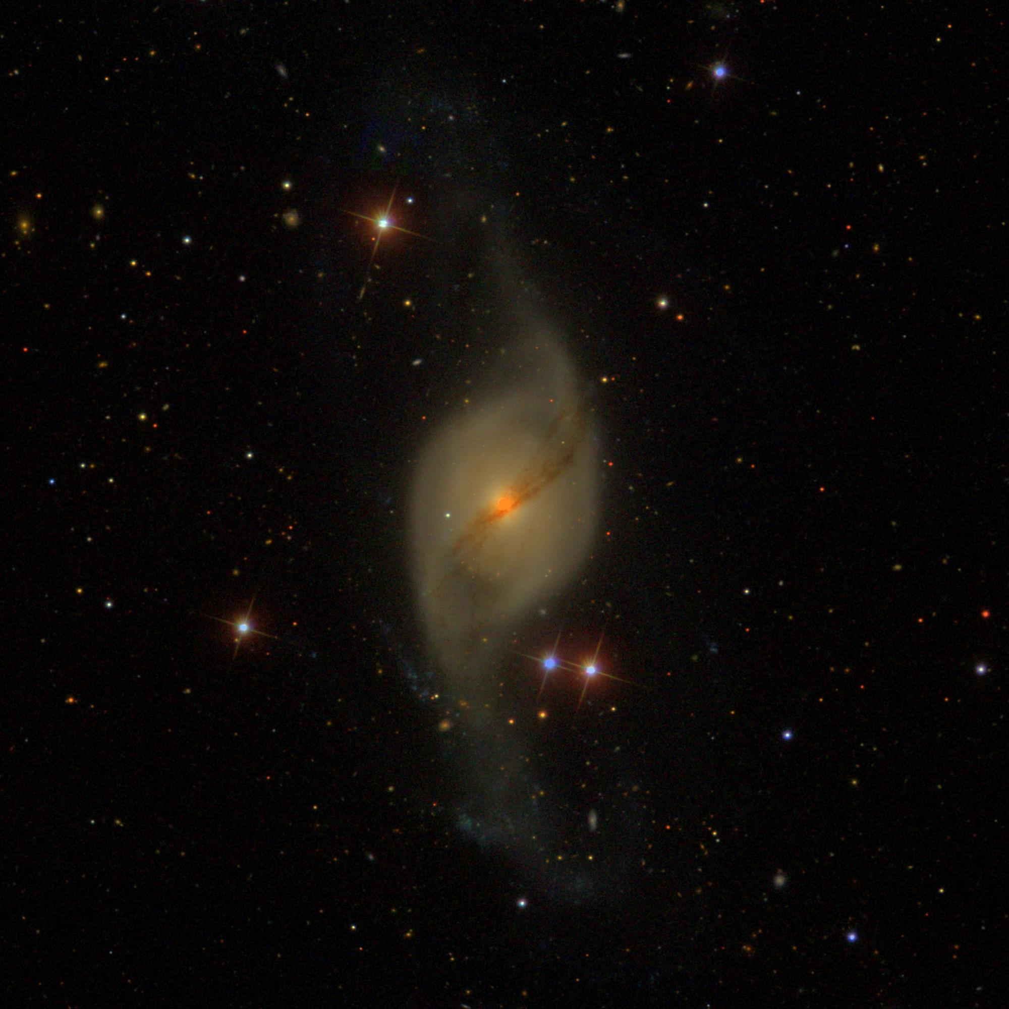 Angle of view: 13.2' × 13.2' (0.396" per pixel), north is up.